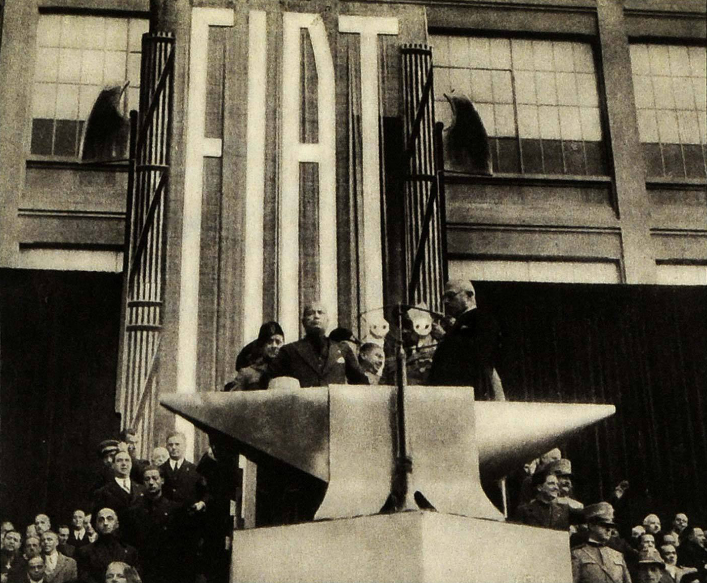 Italian fascist dictator Benito Mussolini giving a speech at Fiat Lingotto factory in Turin, 1932.